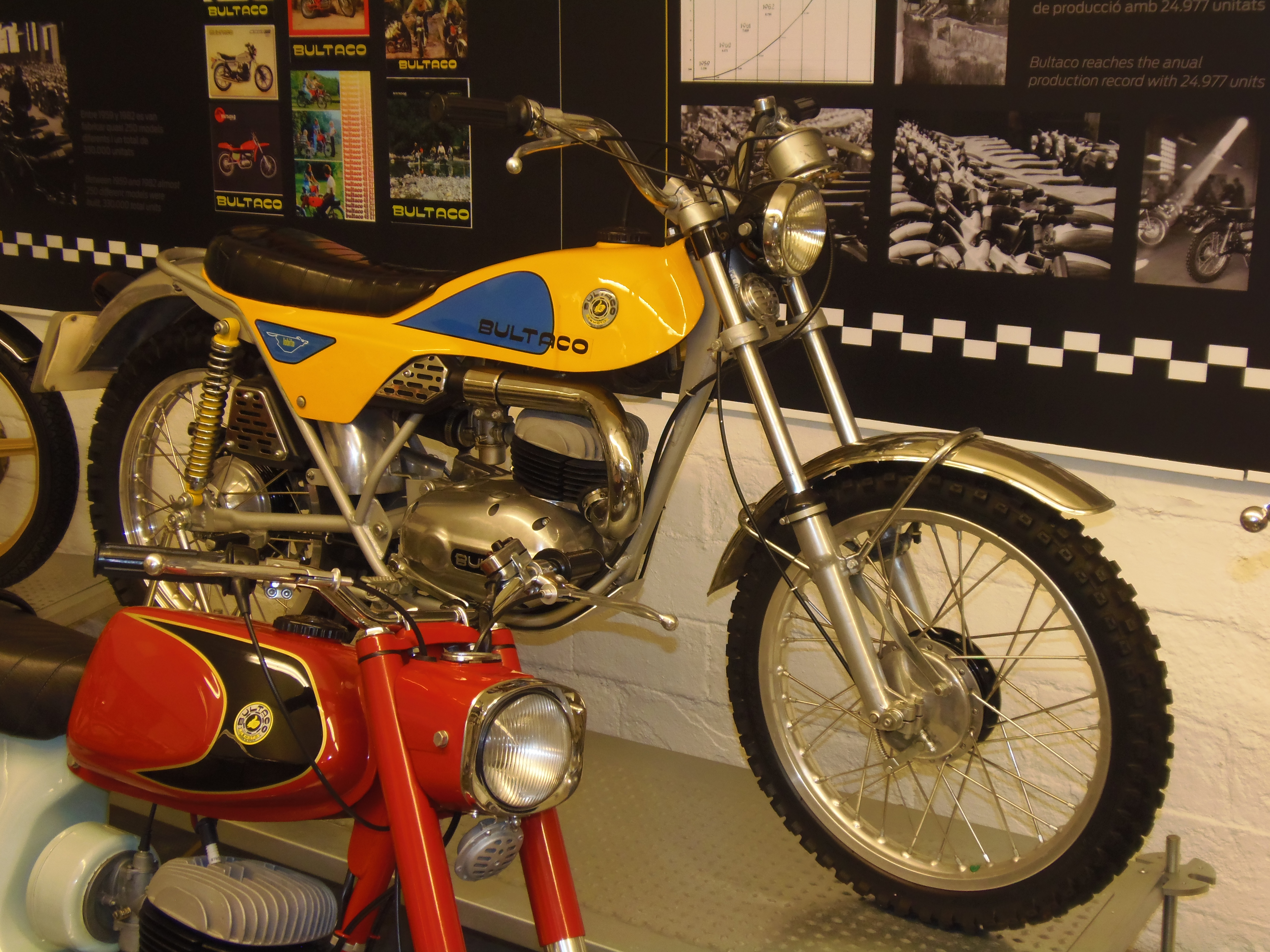 Bultaco Lobito MK6, 74 cc, 1973